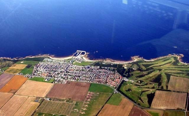 Hopeman From Above The small village of Hopeman is seen here from high up, with the entire village visible including the 18 hole Hopeman Golf Course to the right and the village Harbour, centre.